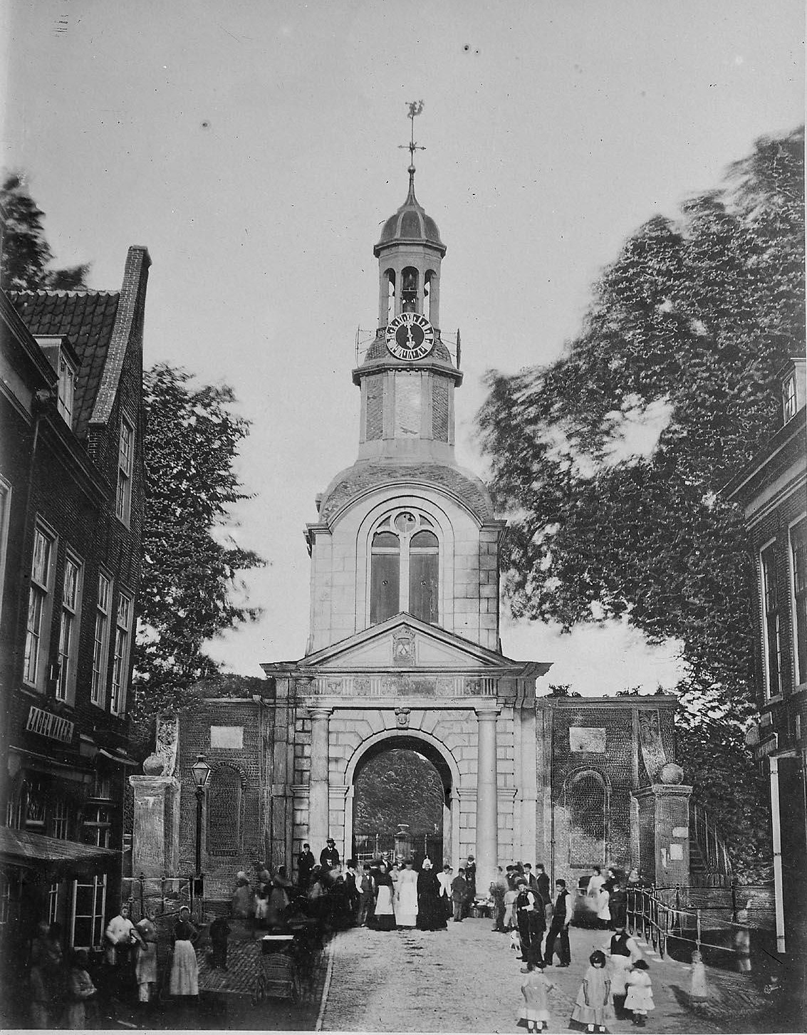 Hogewoerdsbinnenpoort. City gate of the city of Leiden. Demolished.